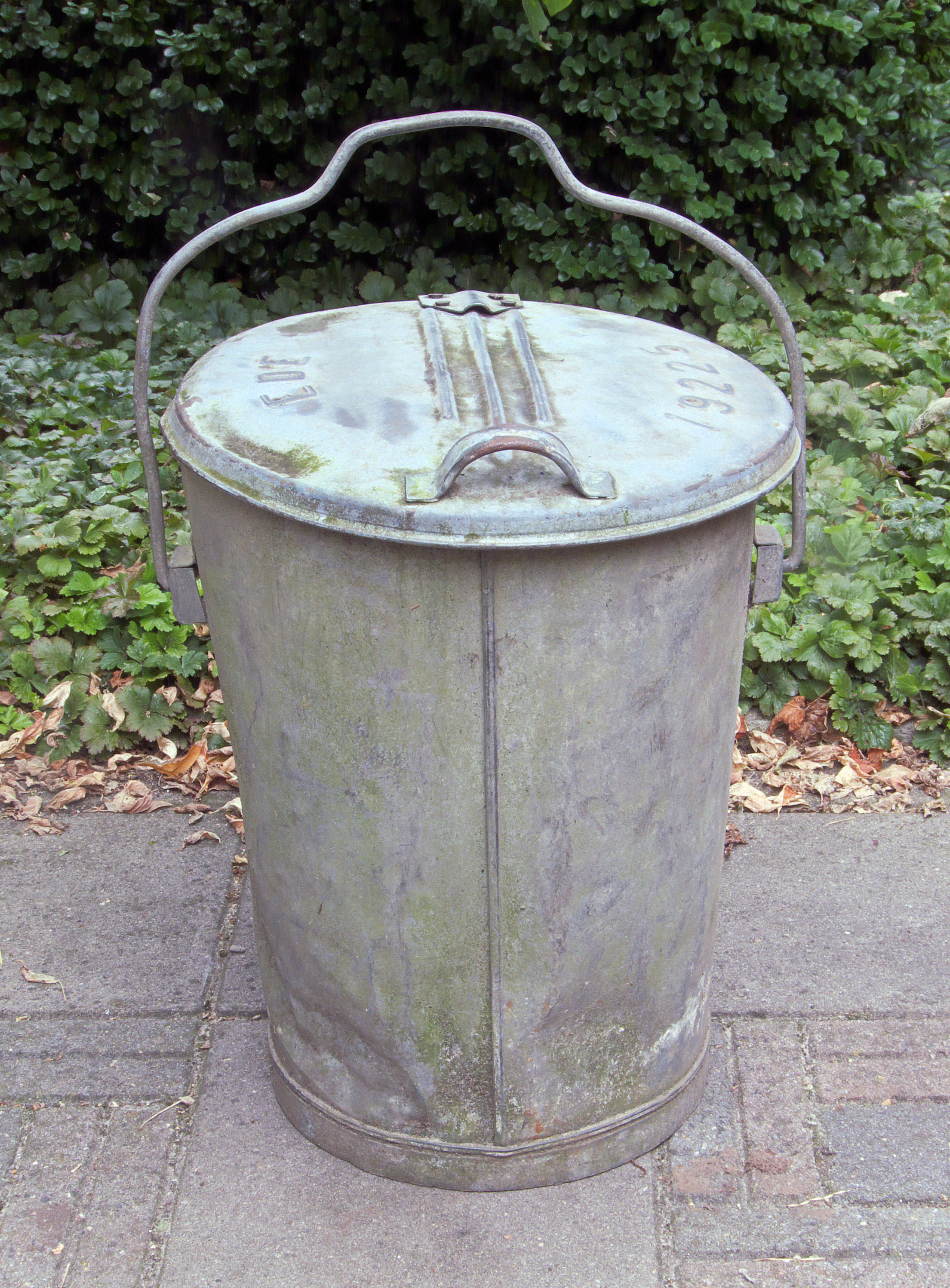 Galvanized iron trash can (years 60-70)